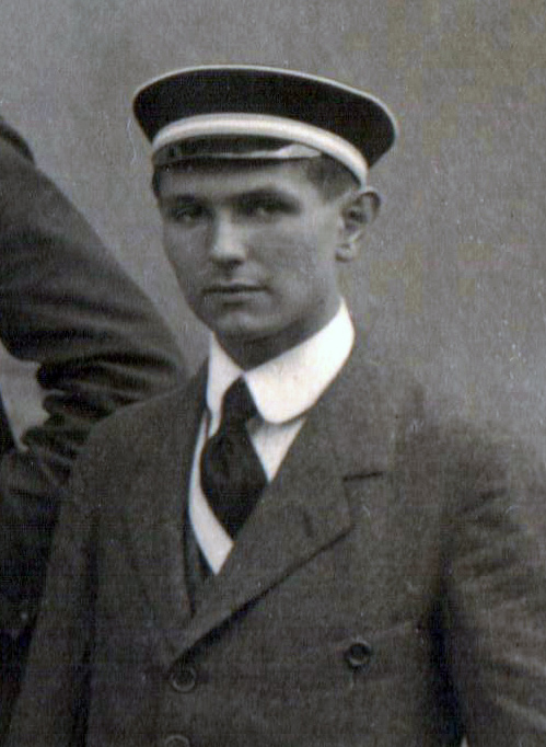 Wilhelm Roloff (1900–1979), manager and german resistance member as young member of the Burschenschaft Derendingia Tübingen in 1920